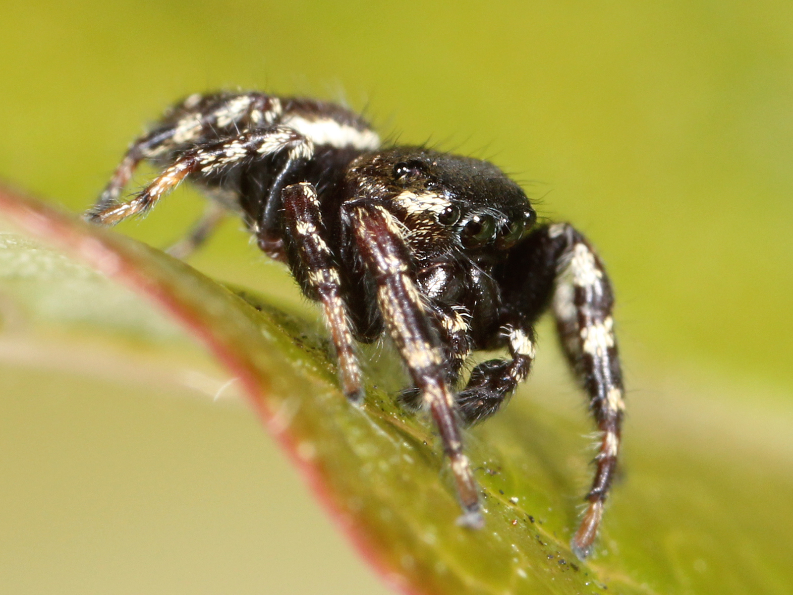 Adult male Pelegrina aeneola jumping spider collected in Yosemite Valley, Mariposa County, California.